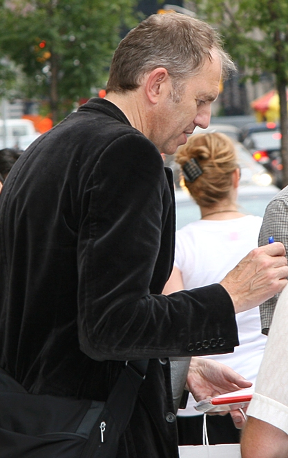 Anton Corbijn at the 2007 Toronto International Film Festival